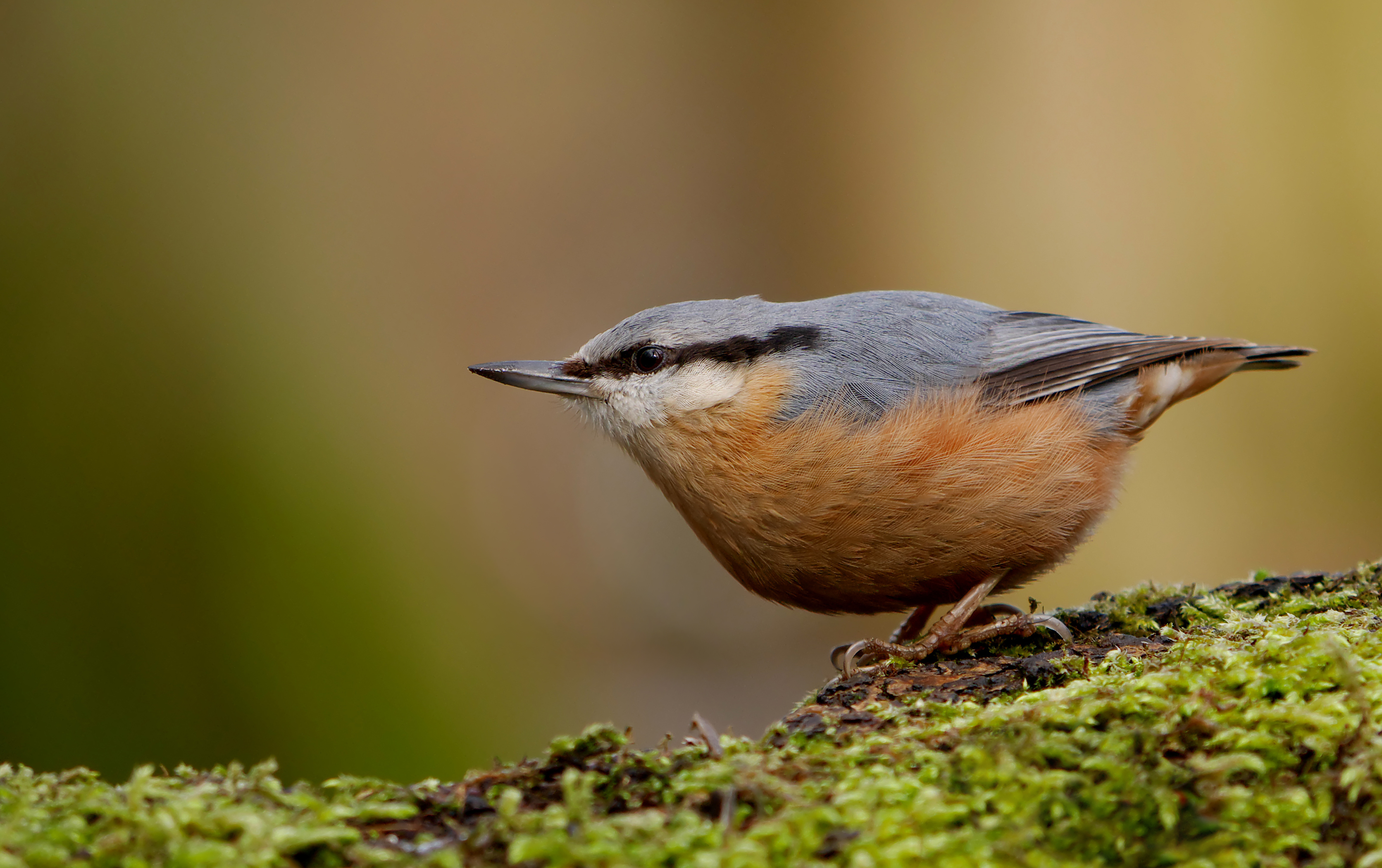 Panasonic GX7 + Panasonic Lumix G Vario 100-300, O.I.S Nice light conditions today despite frequent rainshowers